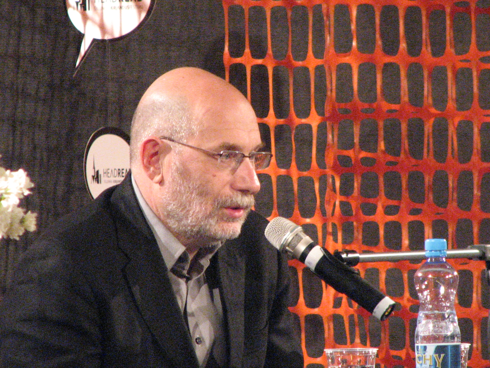 Boris Akunin performing in literature festival HeadRead